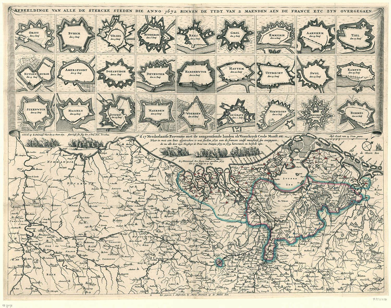 Image depicting all fortified cities in the Netherlands that were conquered in 1672 during the Franco-Dutch war.